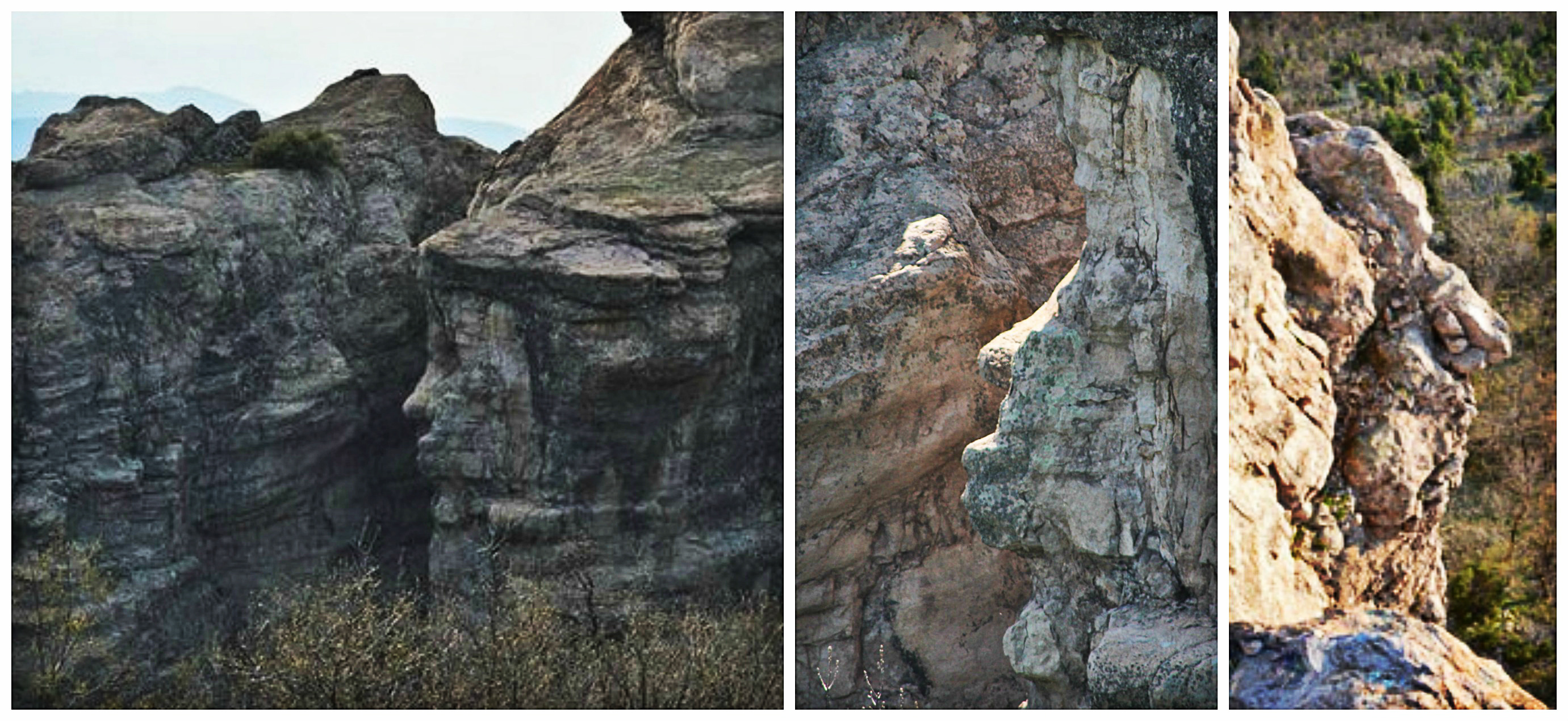 Human profiles Dogankaya Sarnitza BG